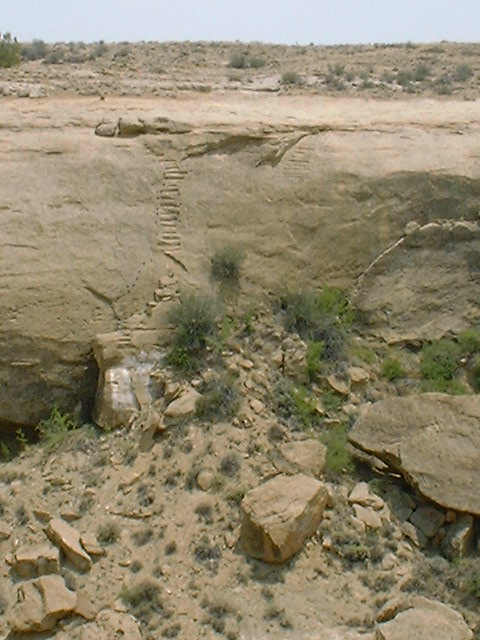 An image of the Jackson stairs in Chaco Canyon (New Mexico, United States).